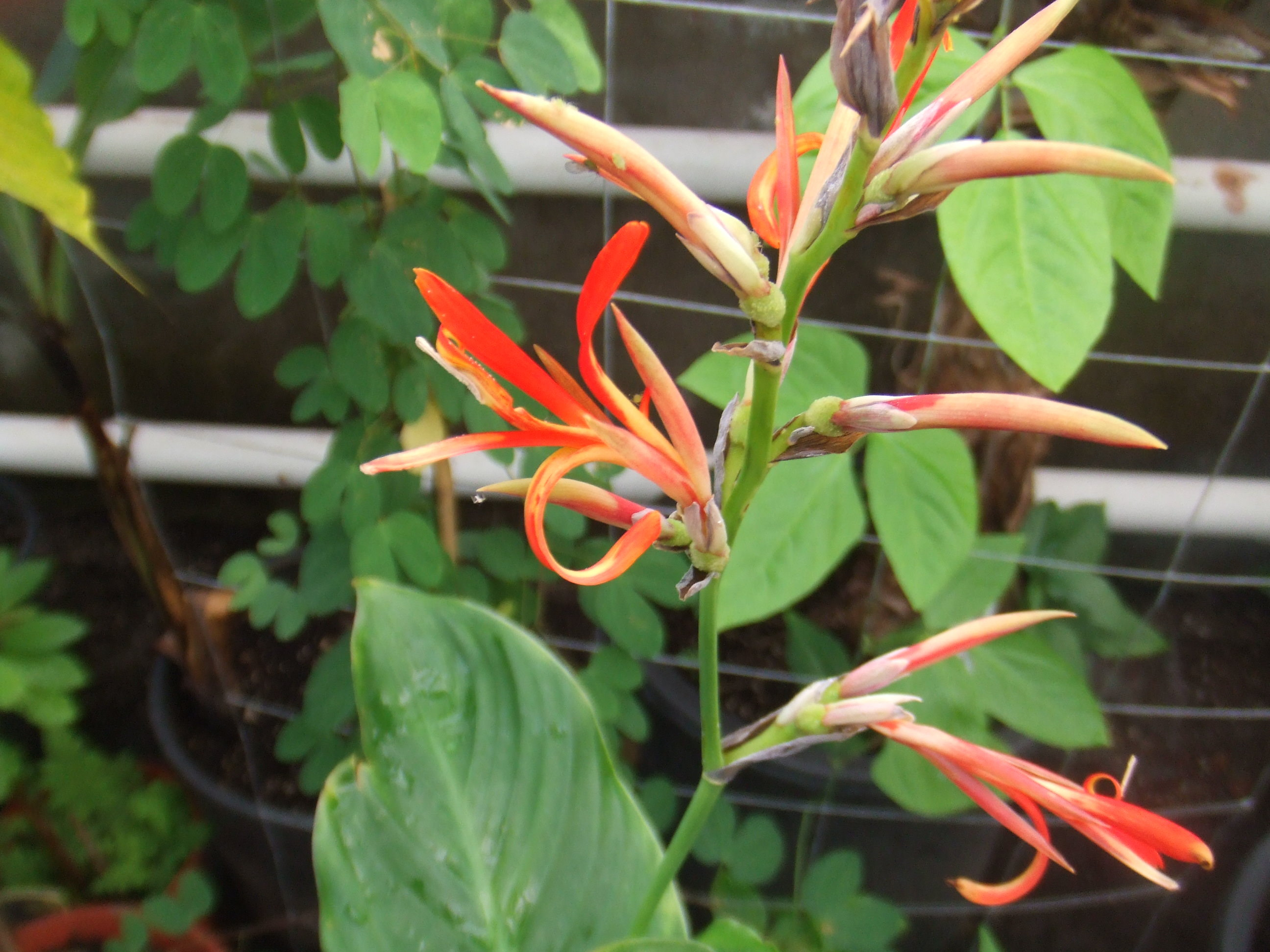 Canna brasiliensis, picture taken at the Botanische tuin TU Delft in Delft, The Netherlands